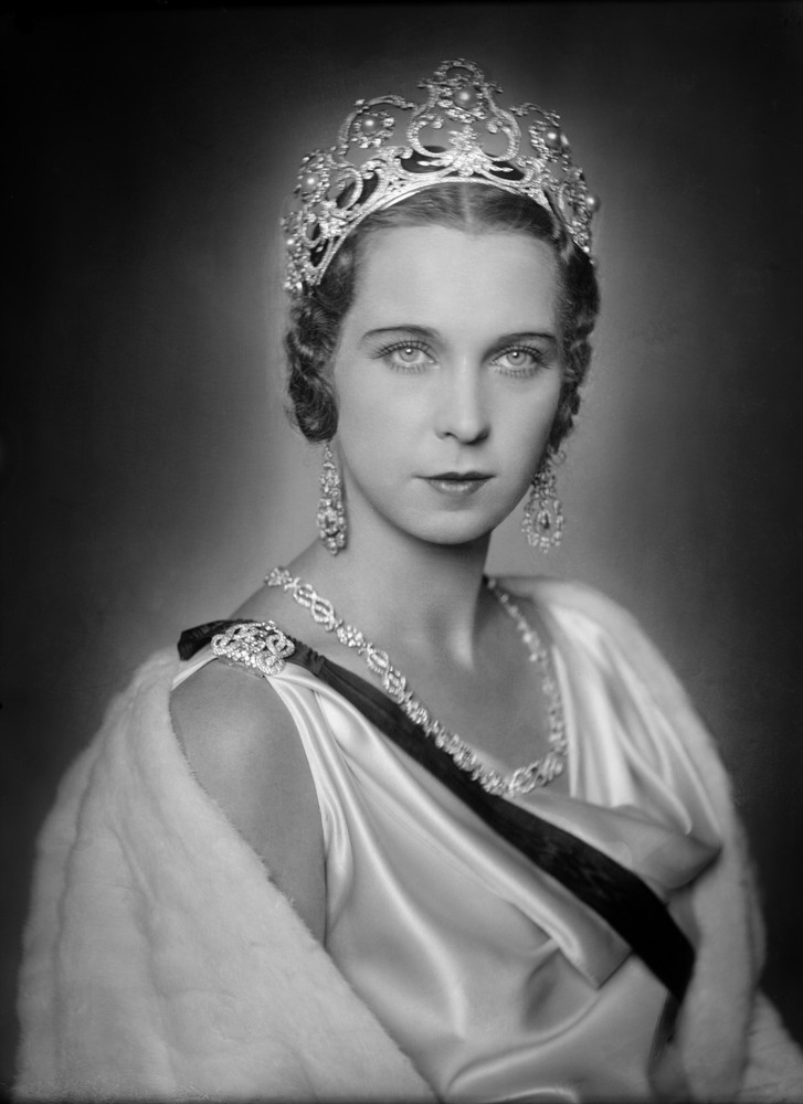 Marie-Jose of Belgium, Queen of Italy